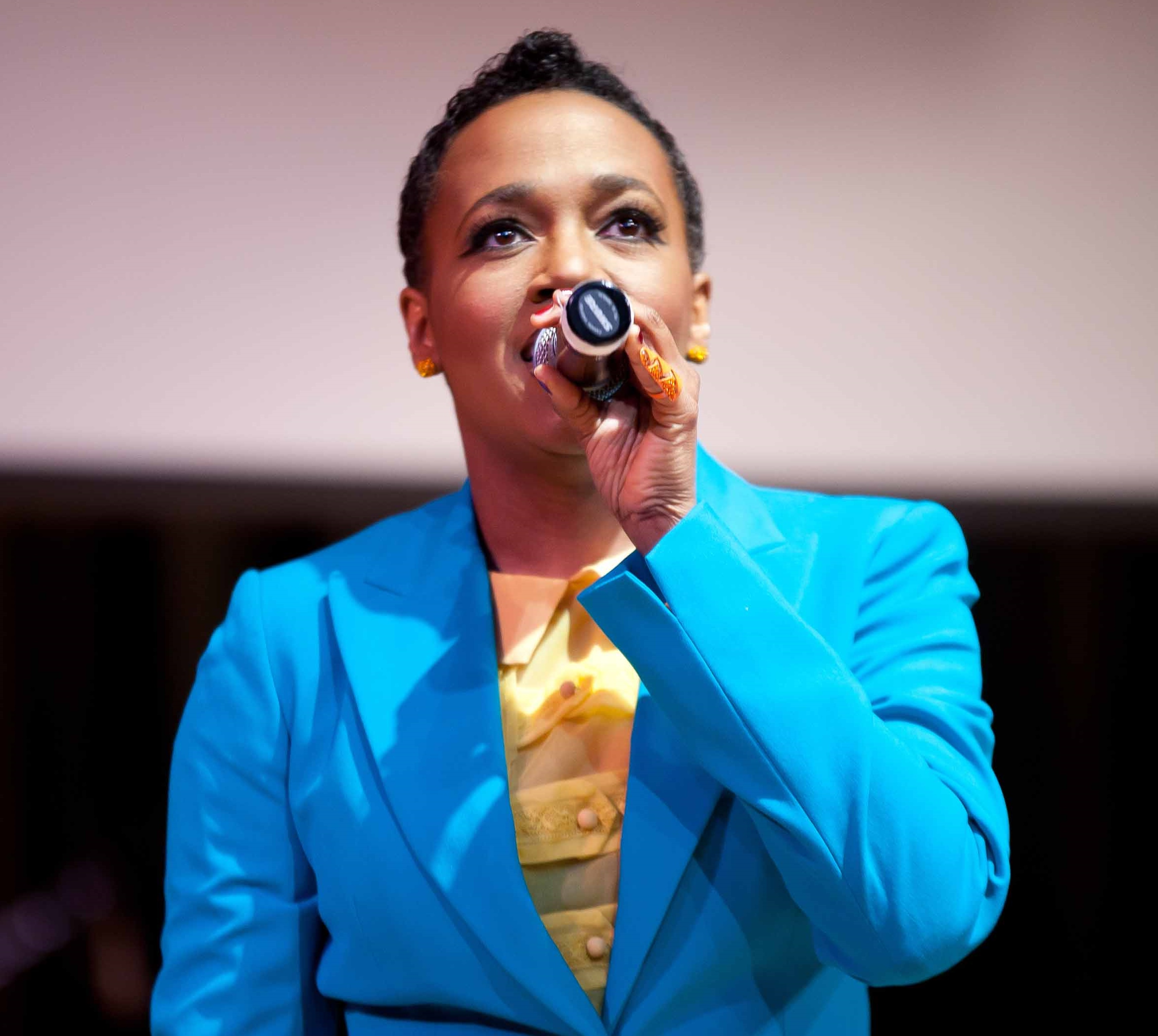 "Dionne Farris performance for Jessica Care Moore's 2013's Black Women Rock Concert at Charles H. Wright Museum of African American History, Detroit MI"